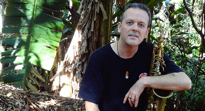 Image of person in article